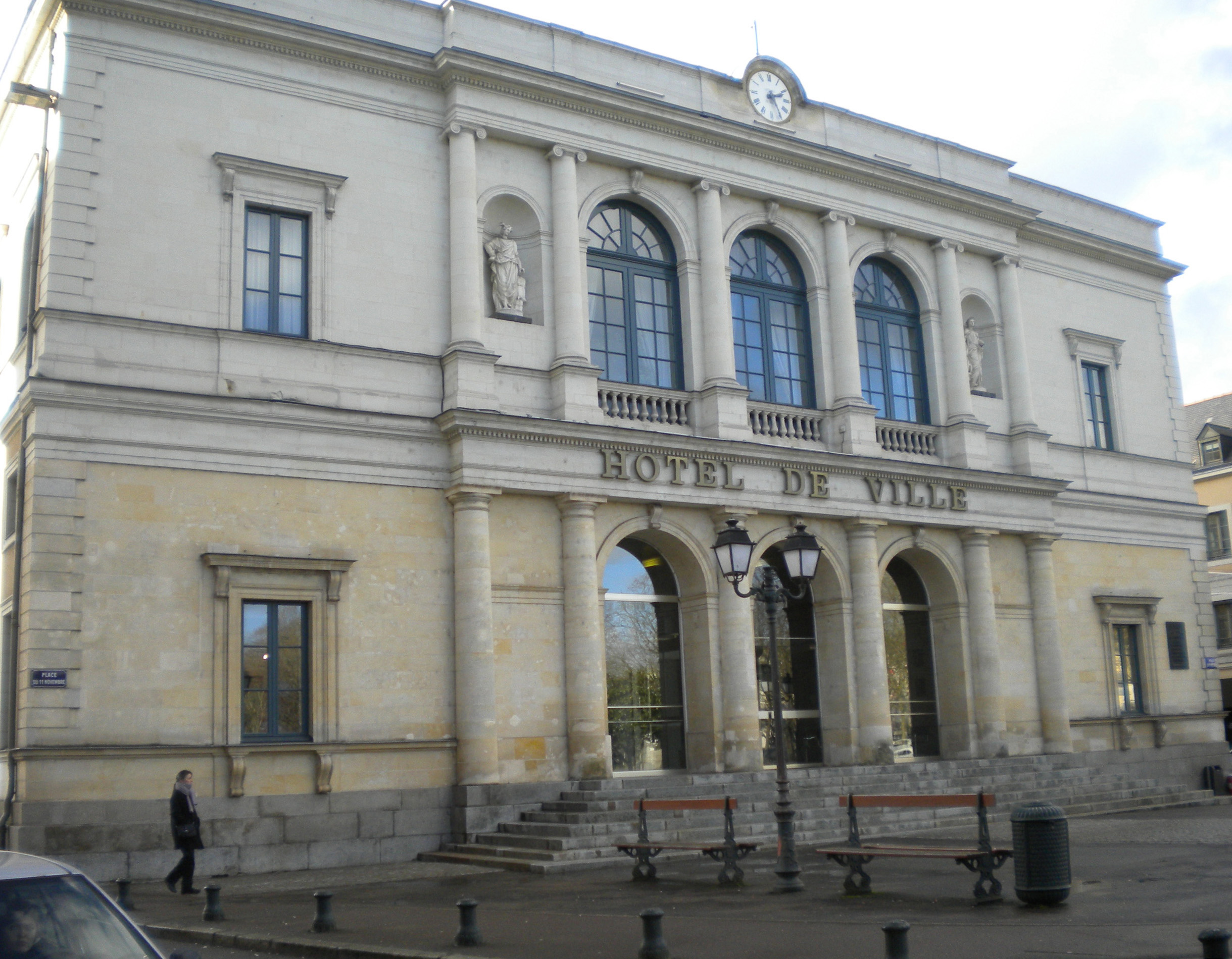 The Town Hall of Laval (53) Mayenne France